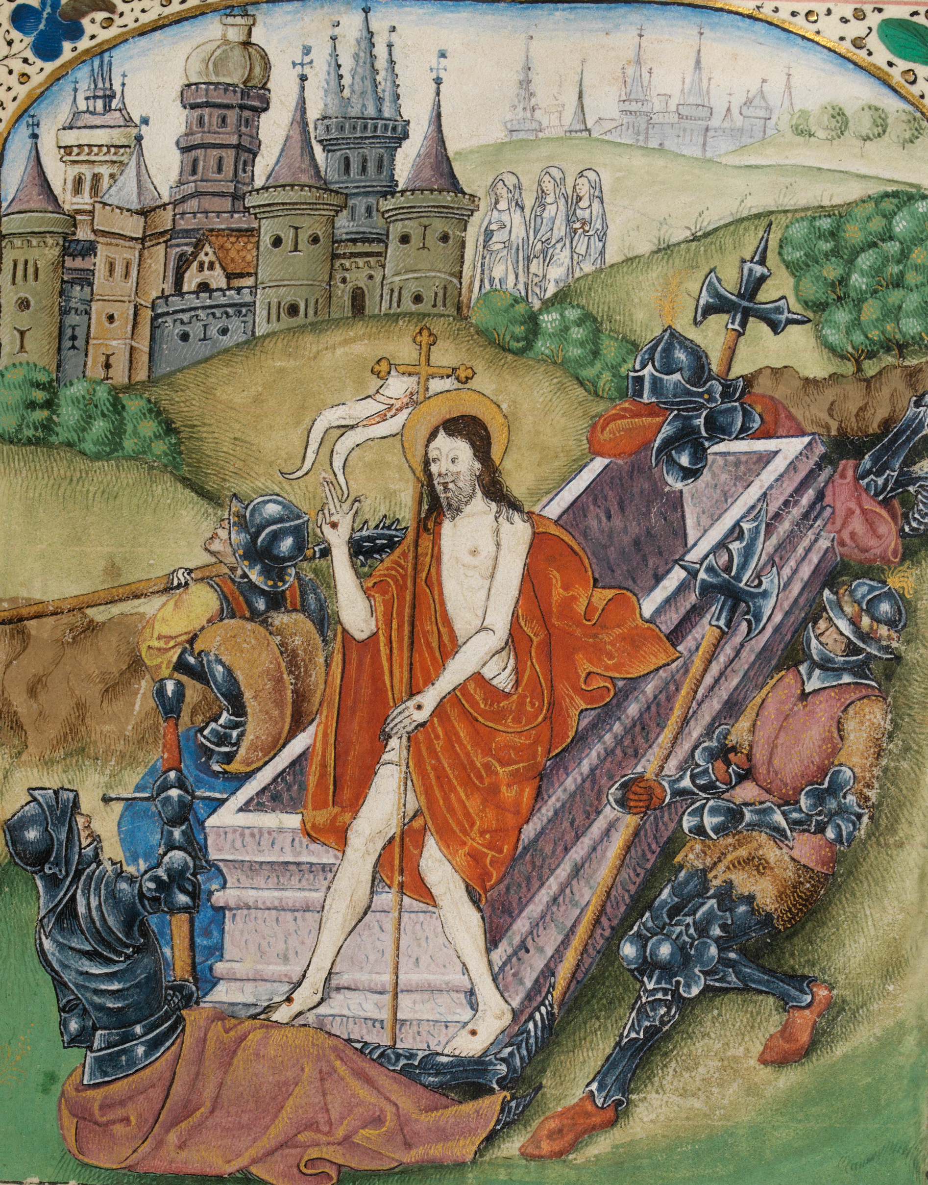 The Resurrection. Beaufort arms in border